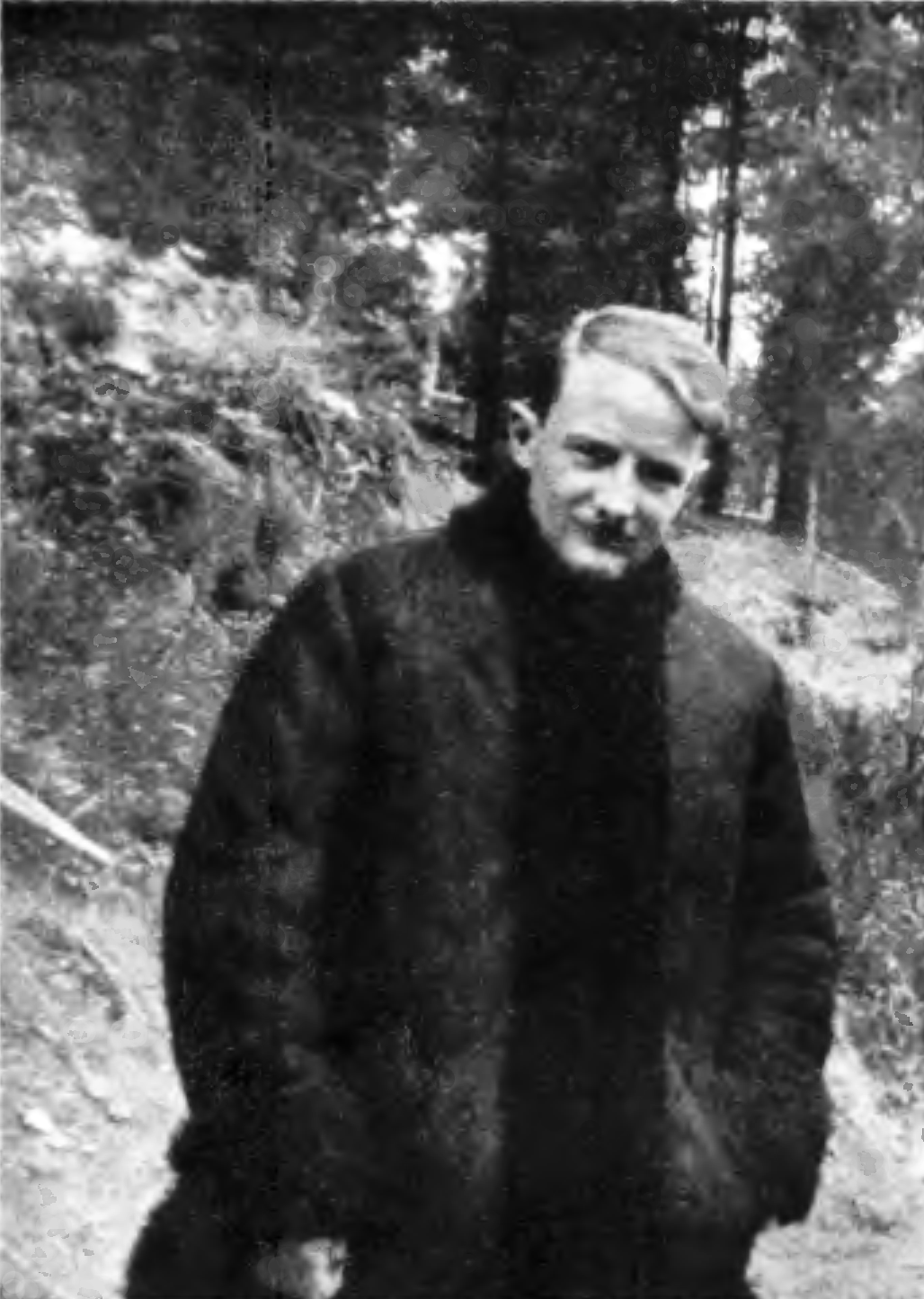 Jerzy Liebert (1904-1931) - Polish poet.